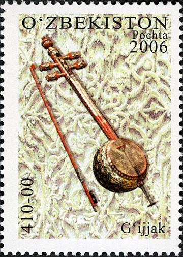 Stamps of Uzbekistan, 2006